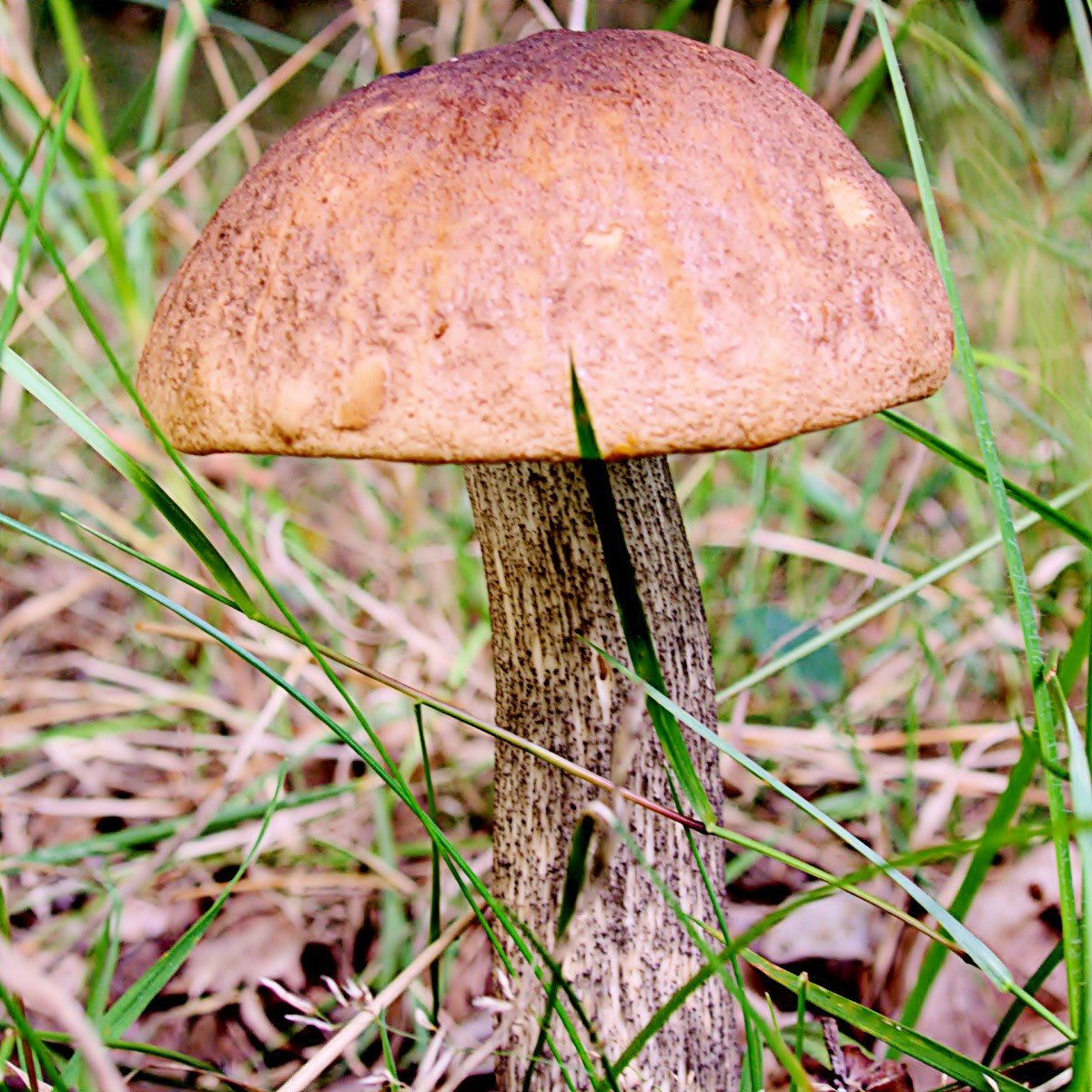 Name: Leccinum aurantiacum. Family: Boletaceae. Location: Münster, NRW, Germany